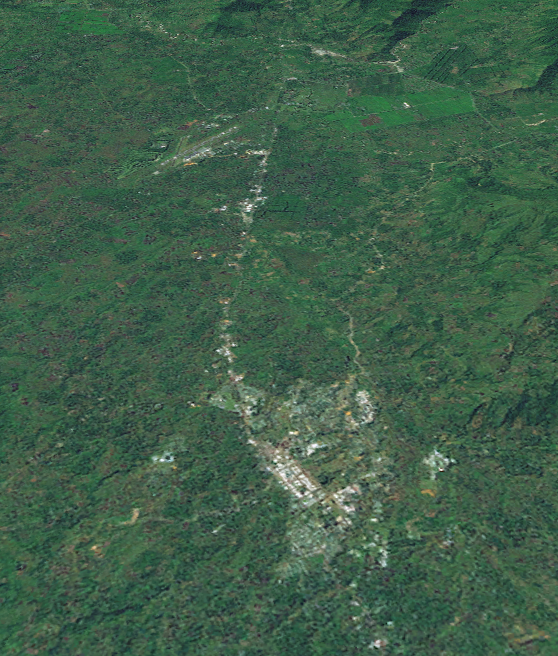 NASA Landsat image of Mount Hagen, Papua New Guinea with a perspective looking almost due east towards the Mount Hagen Airport